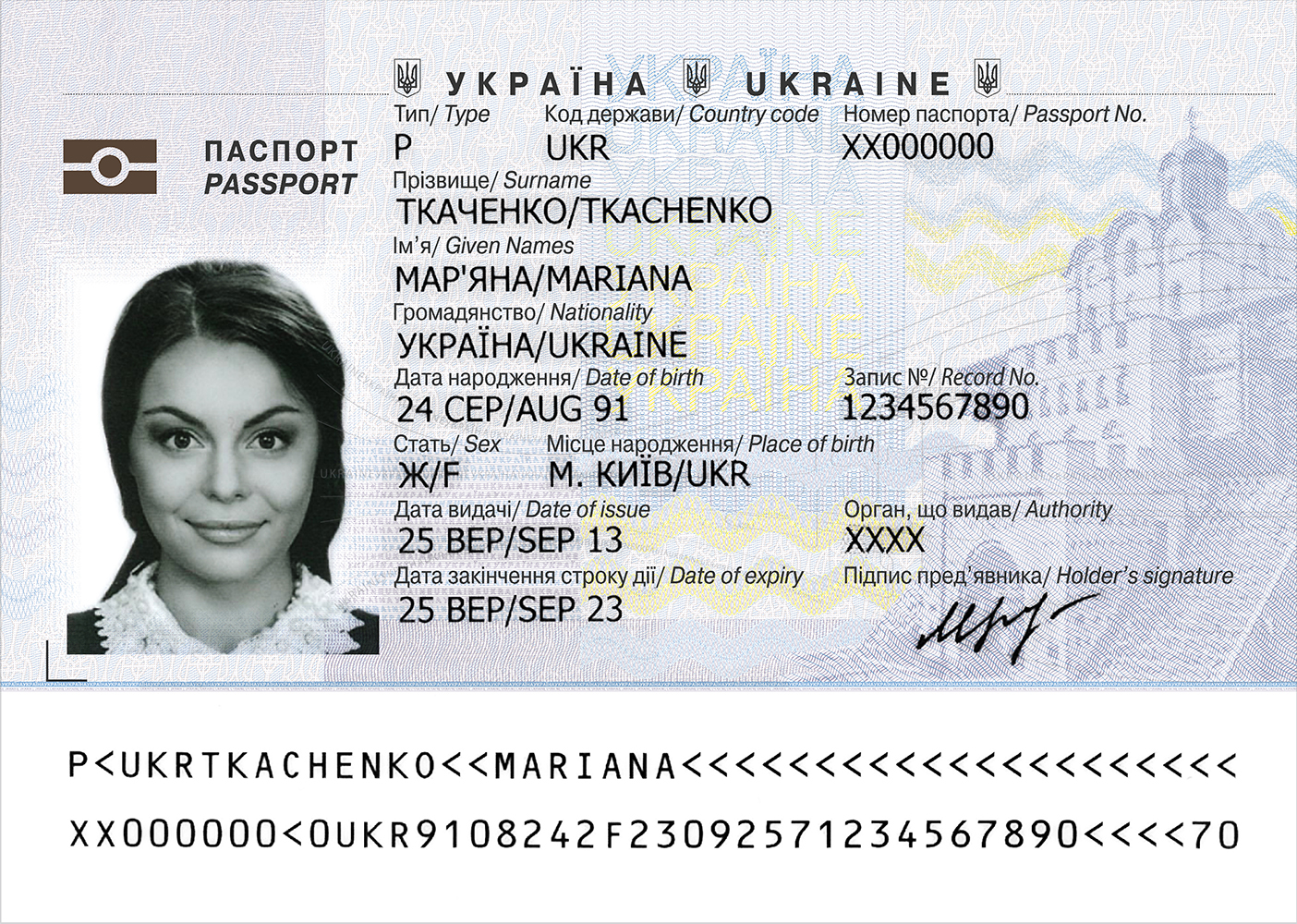 The data page of a Ukrainian biometric passport (2015 onwards).